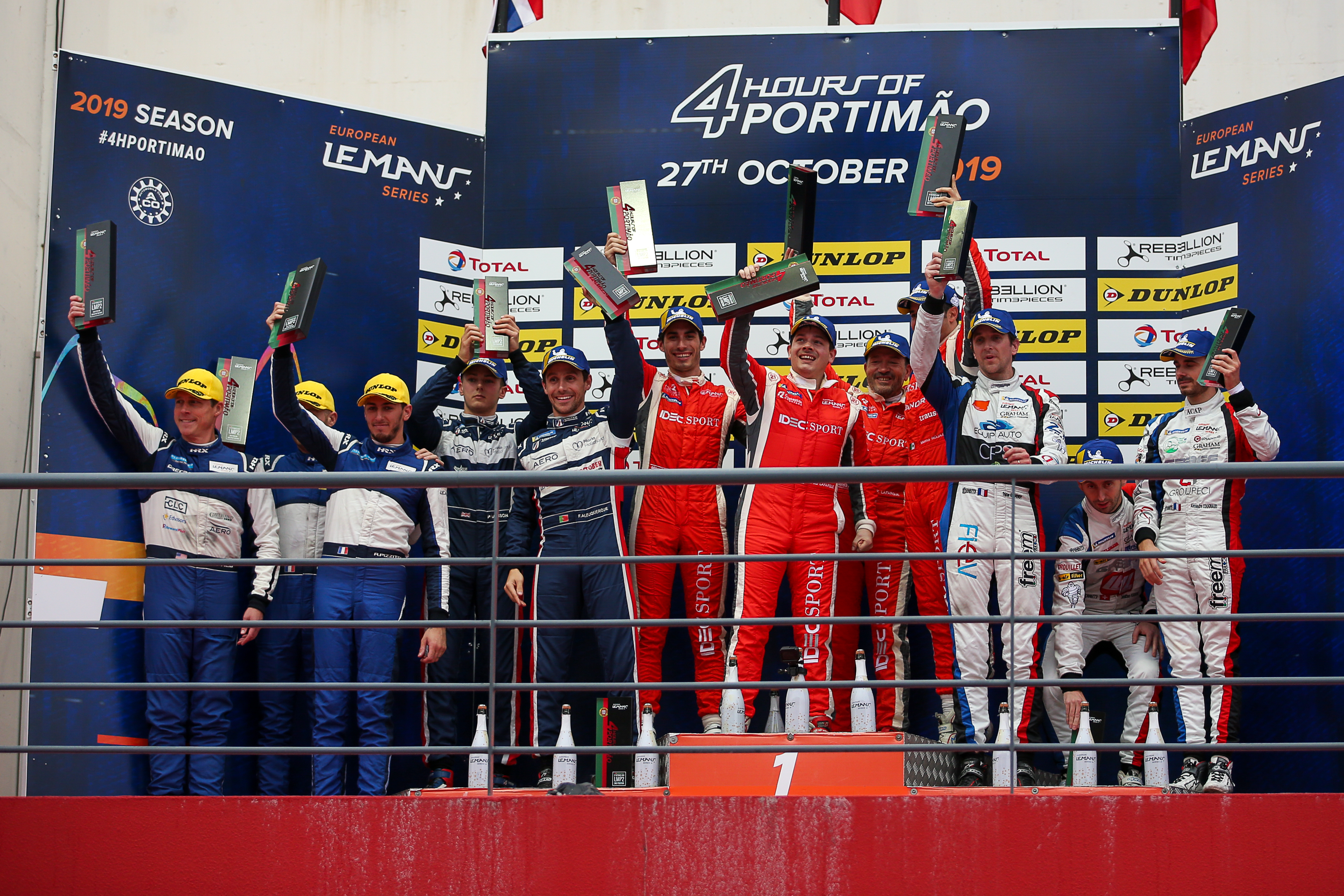 2019 4 Hours of Portimão podium